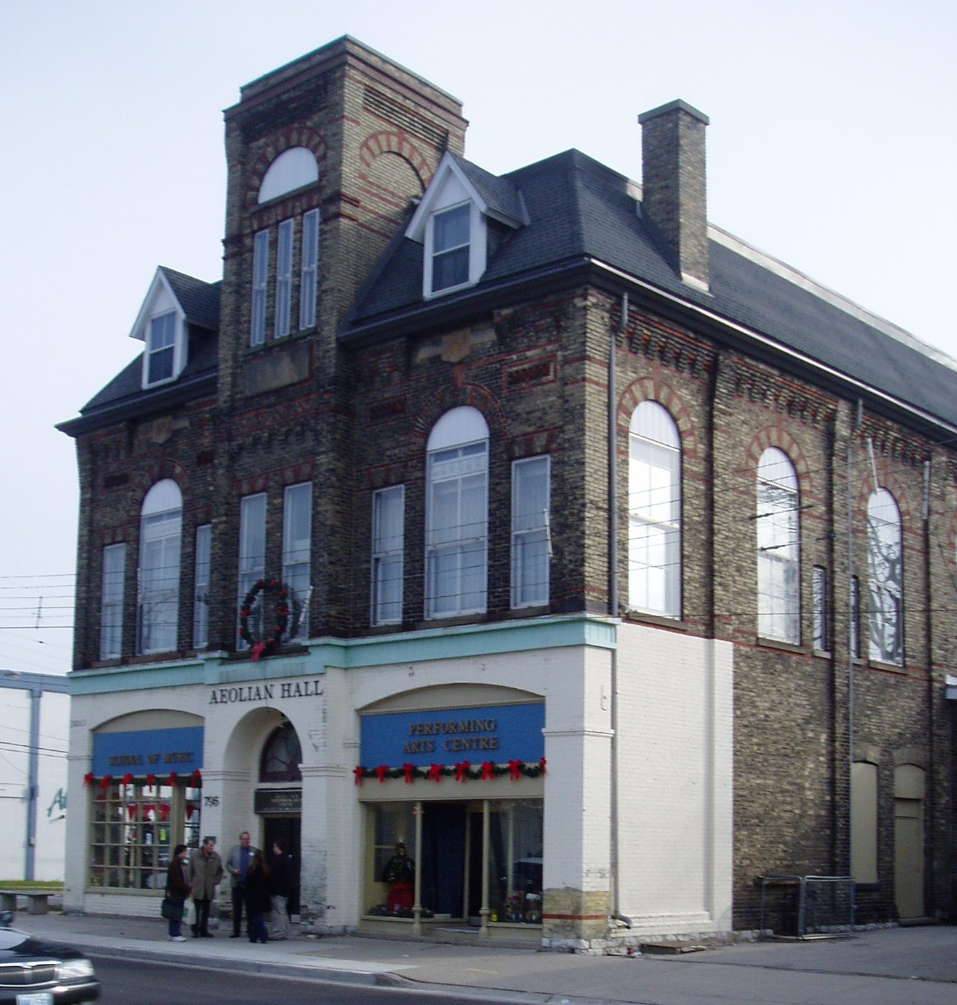 Aeolian Hall (London, Ontario), taken by SimonP